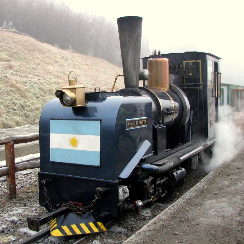 FCAF No. 2 named after Livio Dante Porta, now in a blue livery.